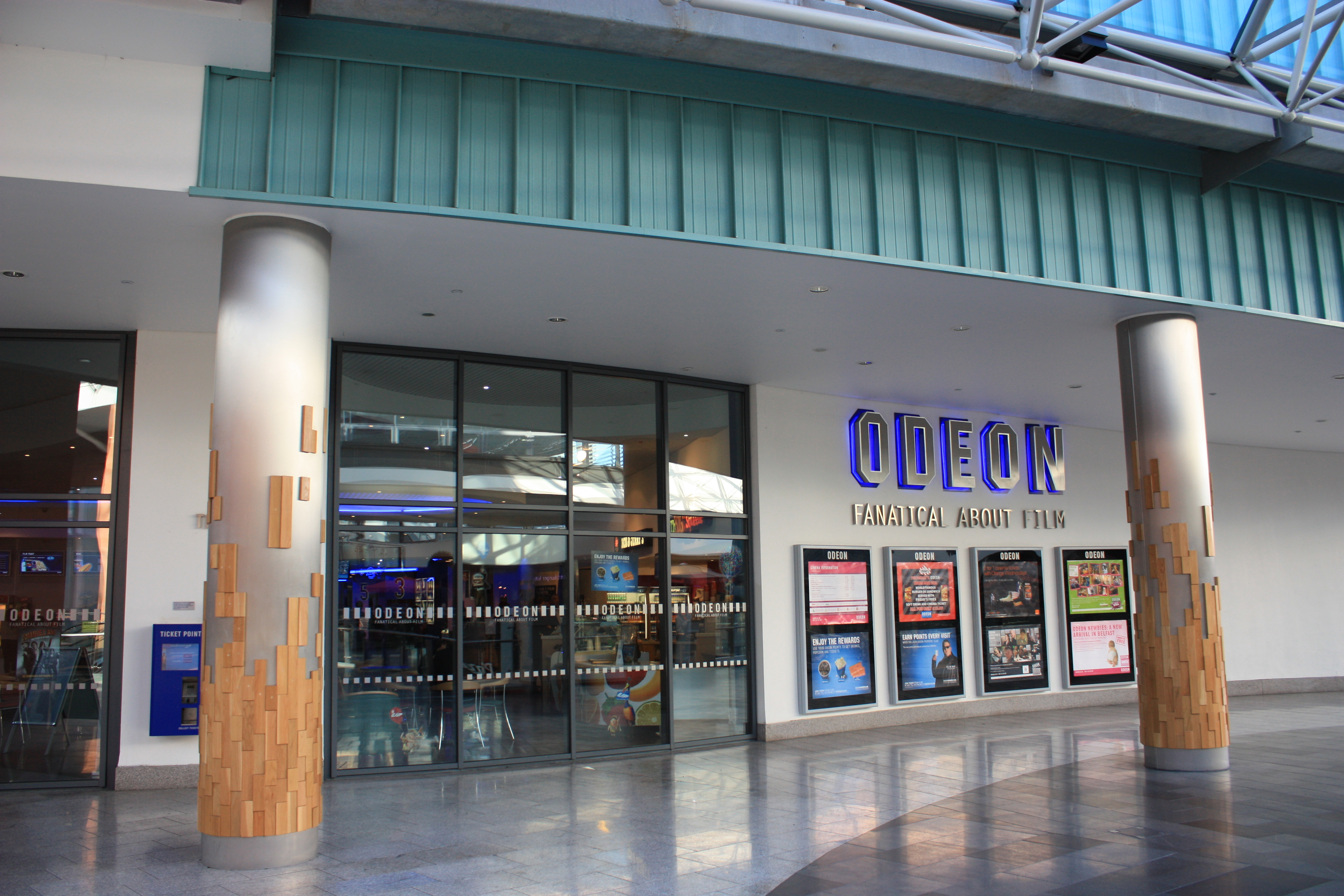 Odeon Cinema, Victoria Square, Belfast, Northern Ireland, October 2009